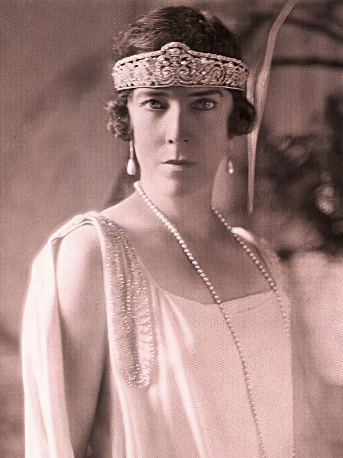 Elisabeth of Bavaria (1876–1965), Queen of the Belgians